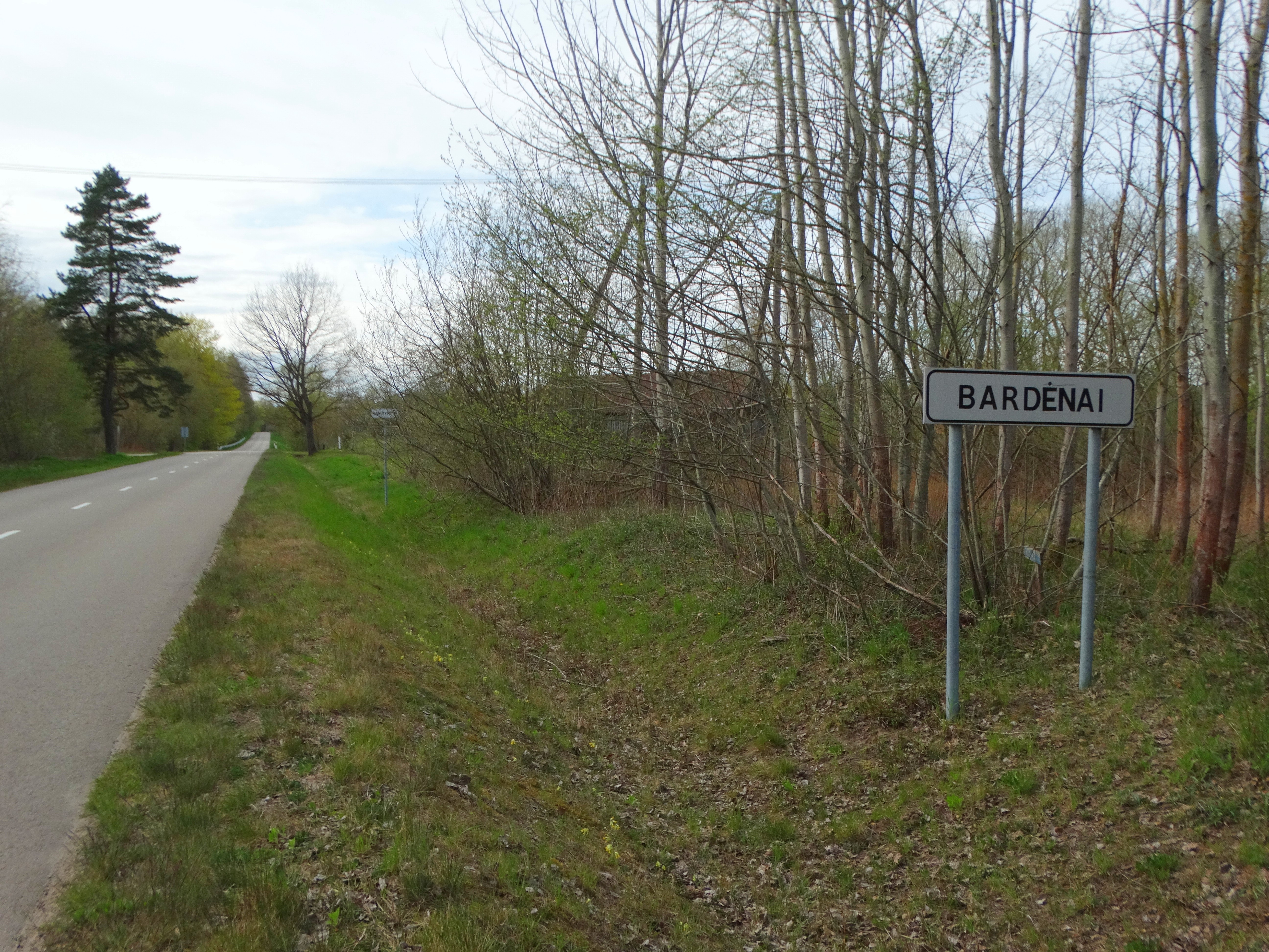 Bardėnai, Pagėgiai Municipality, Lithuania